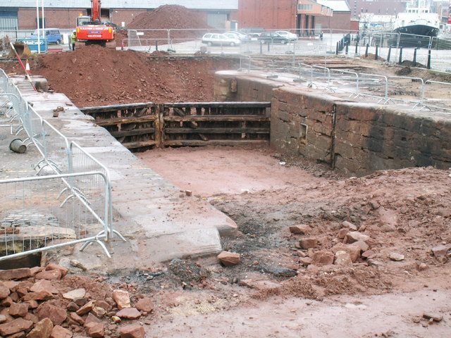 Manchester dock Liverpool Unearthed while building the new extension for the Leeds Liverpool canal is the entrance lock built 1803 for the Manchester dock built 1780, it was used by the Shropshire union canal company and the Great Western railway. It received all its traffic via the river in barges from Ellesmere Port (via the Shropshire Union Canal) and from Birkenhead via the Great Western Railway